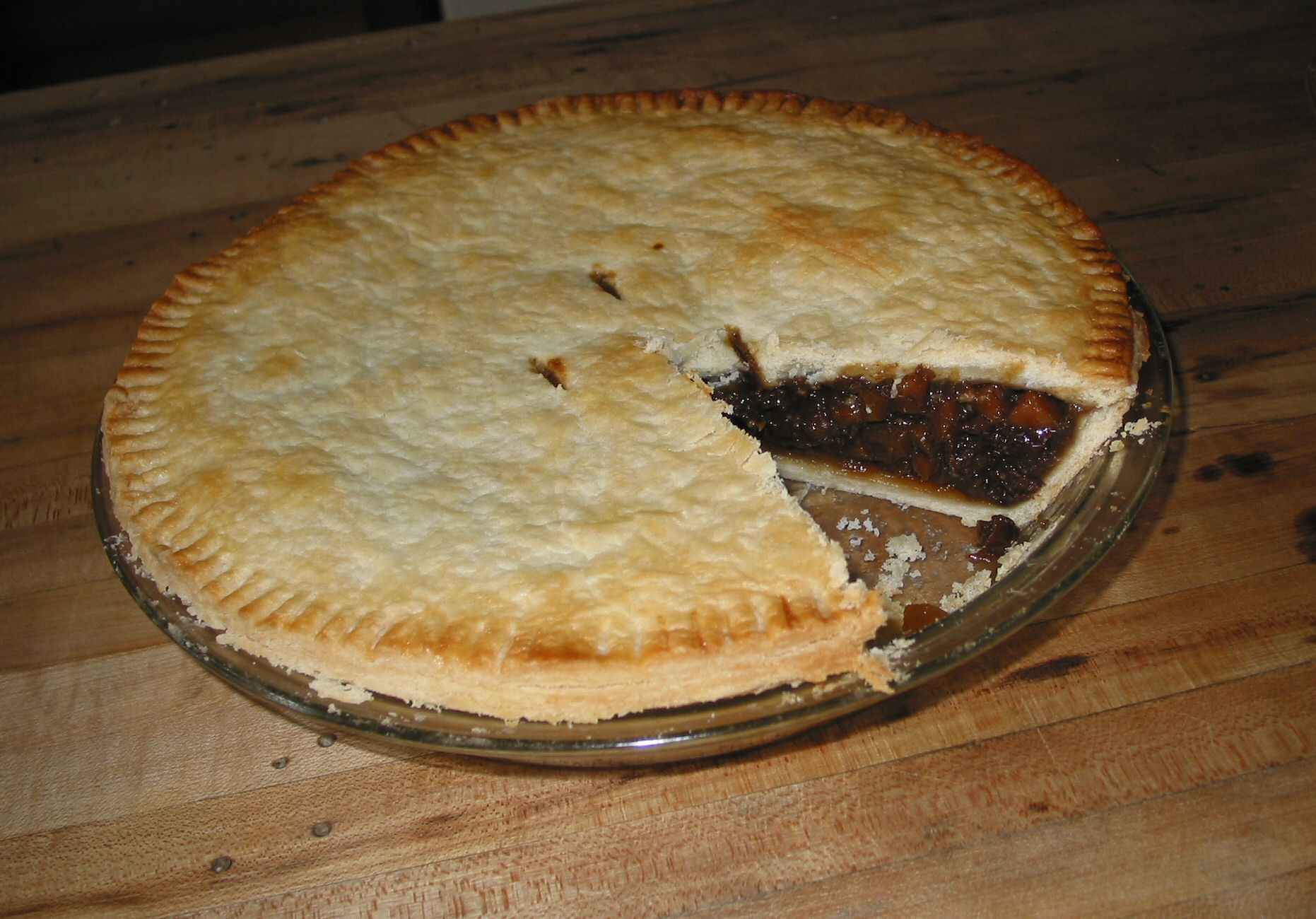 Mince Pie, Falmouth, Maine, USA